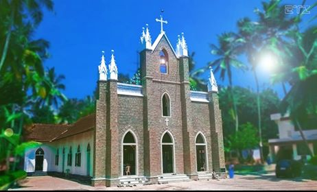 C S I Thozhukkal was formed by Rev. John Cox in 1845